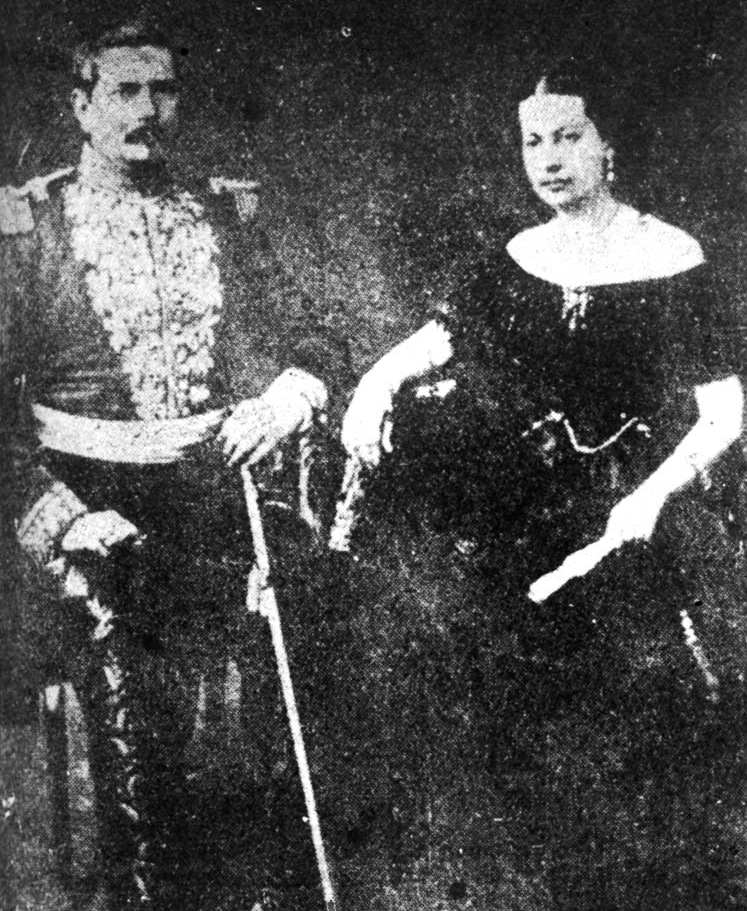 Gerardo Barrios and his wife, Adelaida Guzman Saldos